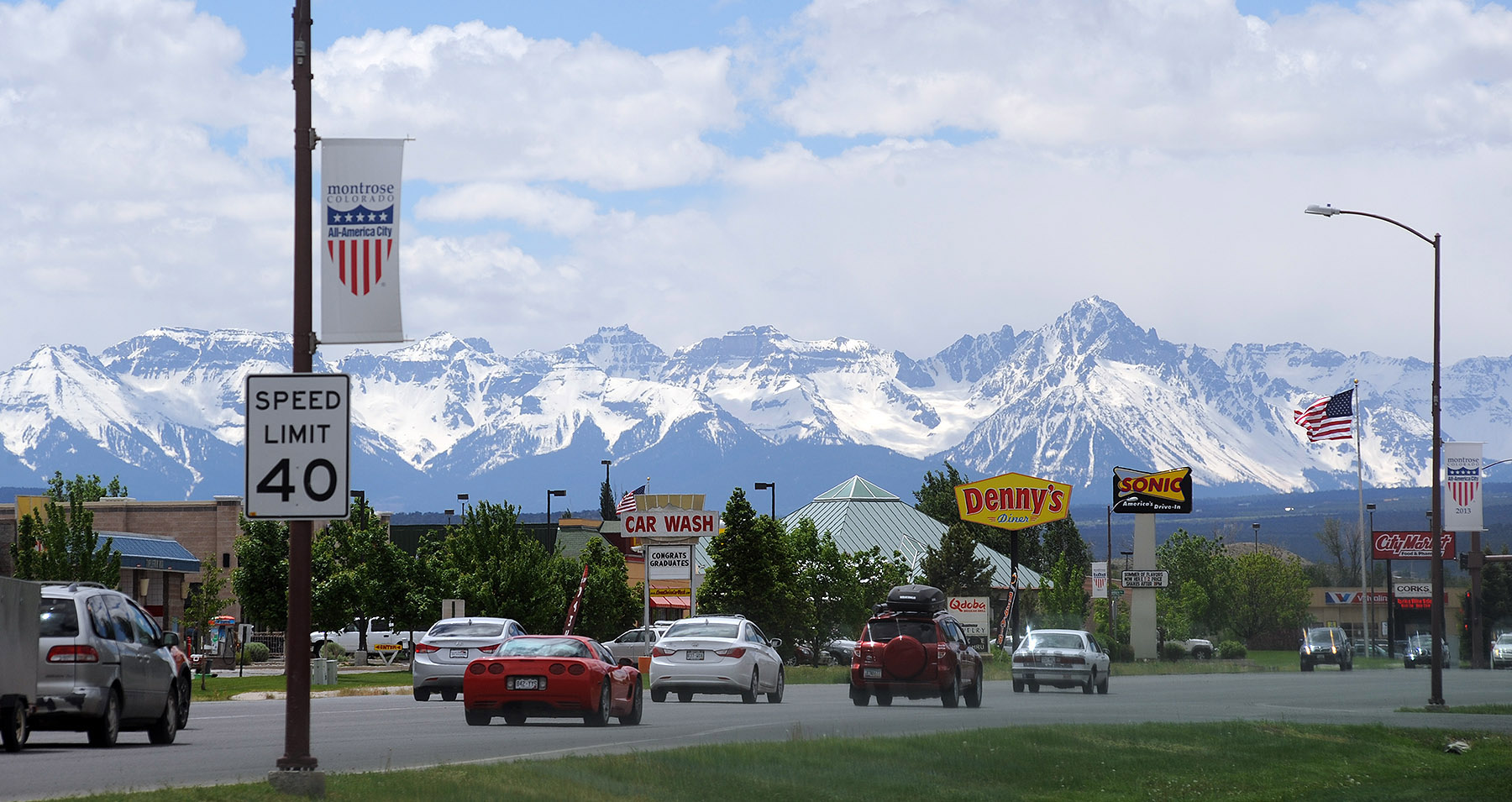 The San Juan Mountains seen from Montrose's South Townsend Avenue.